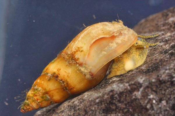 Esperiana daudebarti acicularis, Danube, Lower Austria